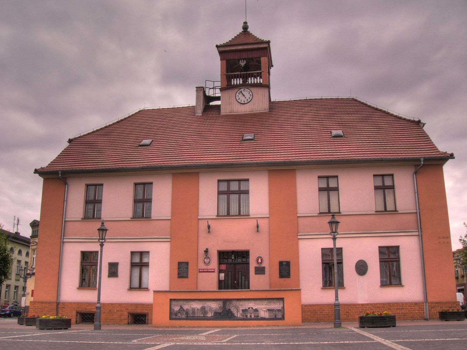 Town hall in Ostrzeszów